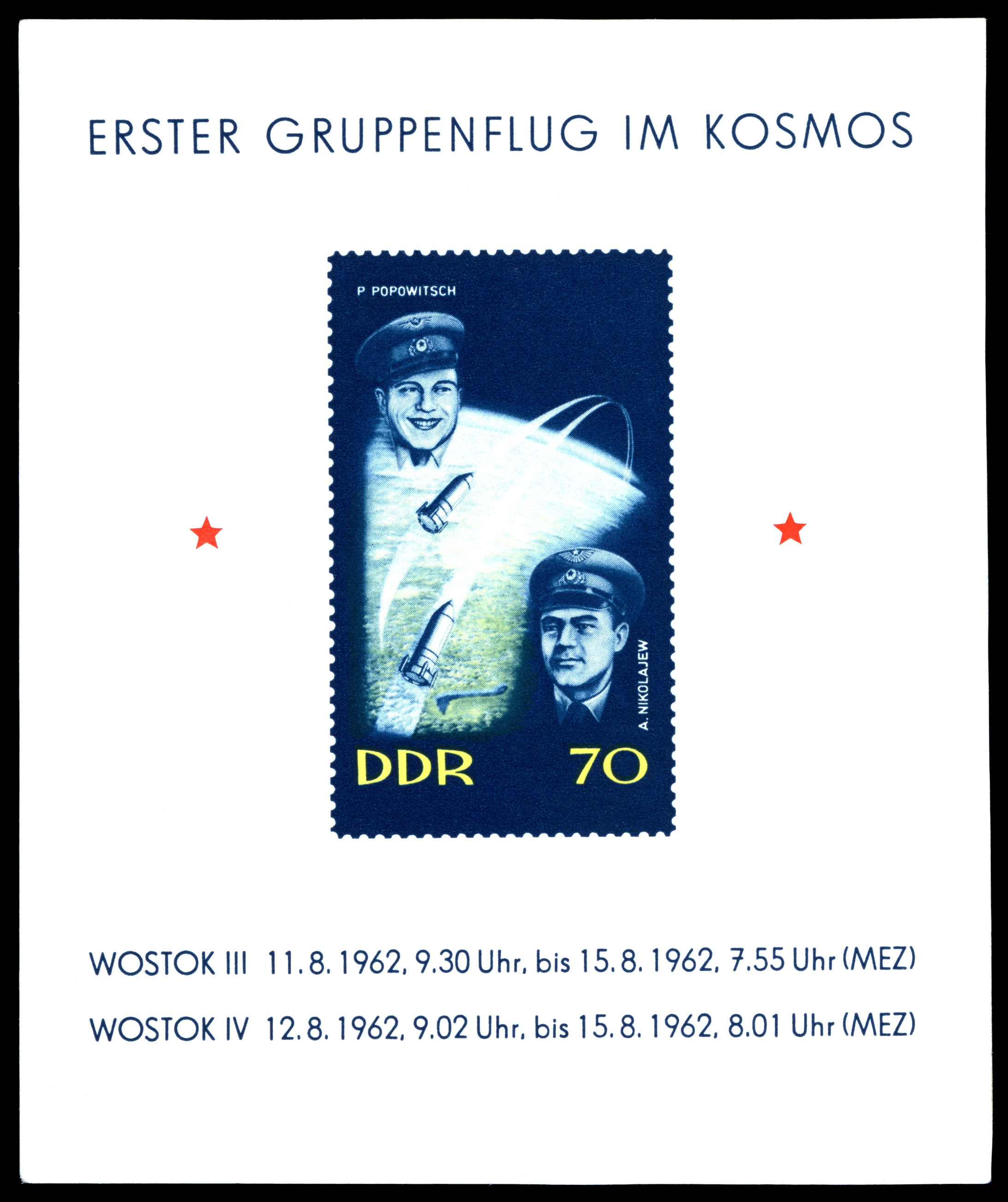 Ausgabepreis: 70 Pfennig First Day of Issue / Erstausgabetag: 13. September 1962 Auflage: 1.100.000 Entwurf: Urbschat Druckverfahren: Offsetdruck Michel-Katalog-Nr: Ländercode-MiNr: Block 17 Licensing This file is most likely NOT in the public domain. It has been marked for review, and will be deleted in due course if the review does not find it to be in the public domain.This file was previously considered to be in the public domain as a German stamp; it is possible that it is in the public domain for other reasons, in which case a new rationale will be applied as part of the review process. See below for the previous rationale. Previous public domain rationale, no longer applicable This stamp is in the public domain in Germany because it was released by the postal administration of the German Democratic Republic or the Soviet occupation zone (Deutschen Post der DDR) whose legal successor is the Federal Republic of Germany. Thus it is an official work according to German copyright law (§ 5 Abs. 1 UrhG).